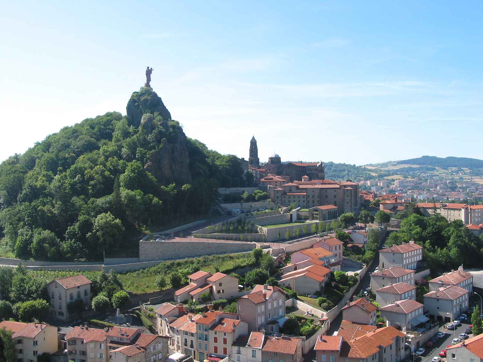 Le Puy-en-Velay (Haute-Loire - France), the city, the Rocher Corneille and the cathedrale of Notre-Dame (XIIth century).